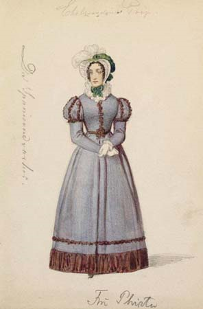 Costume drawing by Edvard Lehmann for Hans Christian Andersen's Da Spanierne var her.